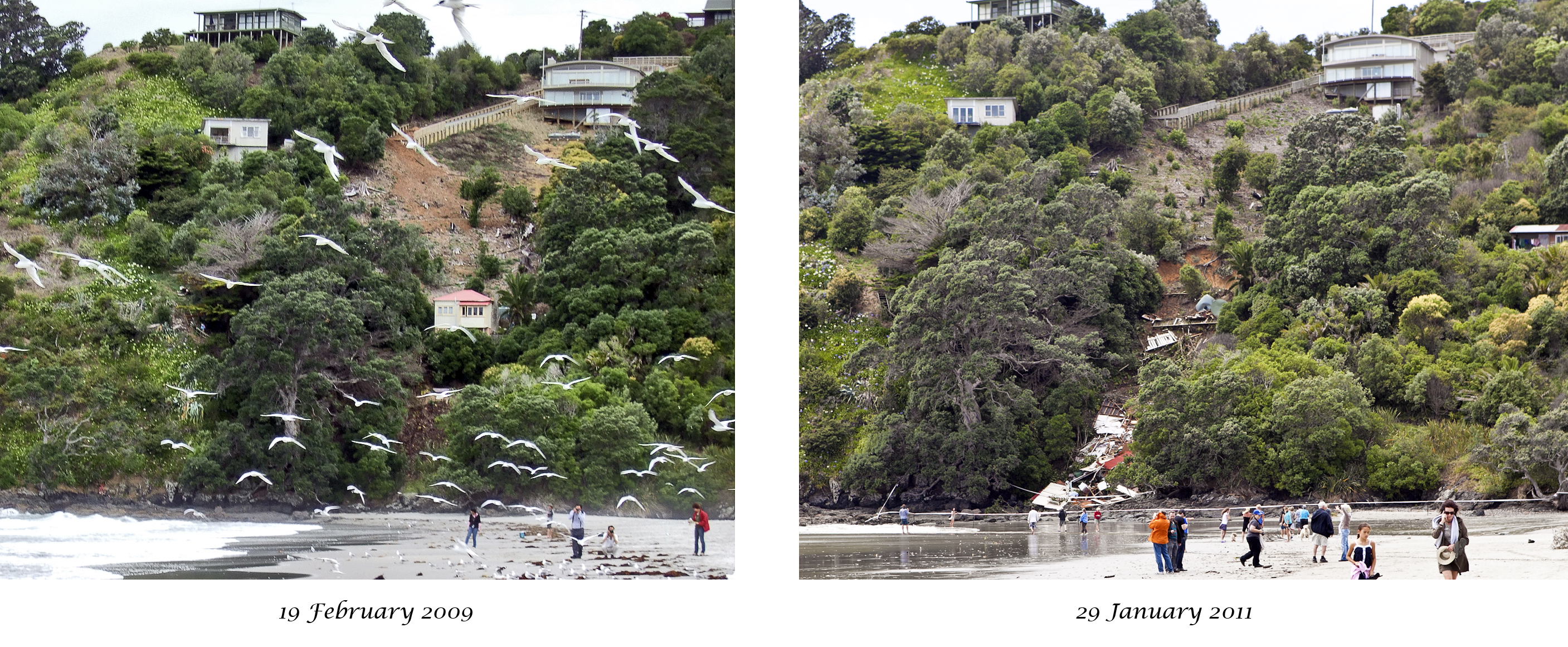 Old, loved bach above Onetangi beach destroyed in minutes when saturated ground gives way in a slip on 29 Jan 2011